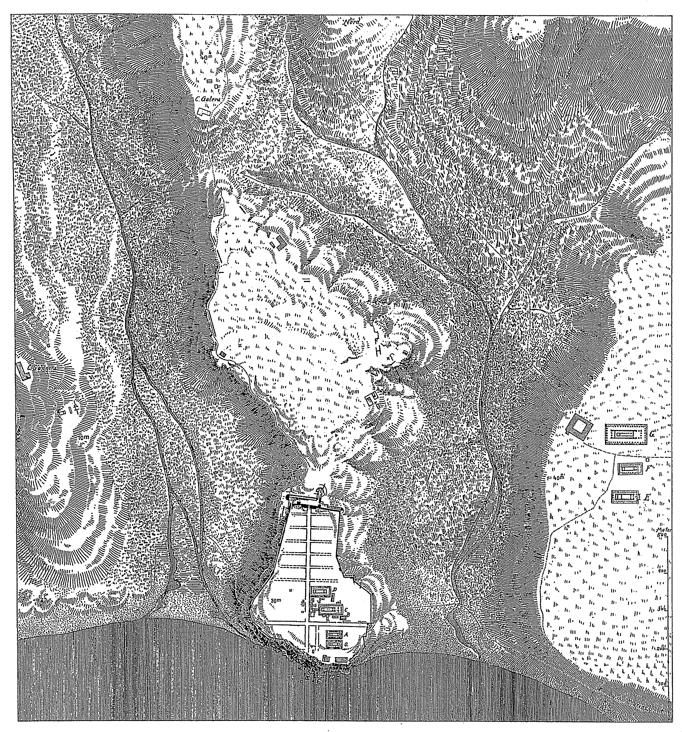 Selinunte, site map.